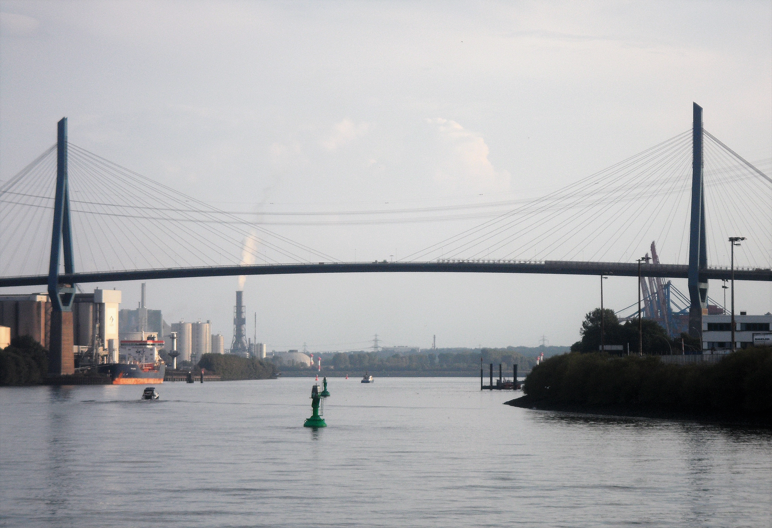 The Köhlbrand Bridge on 20 September 2014